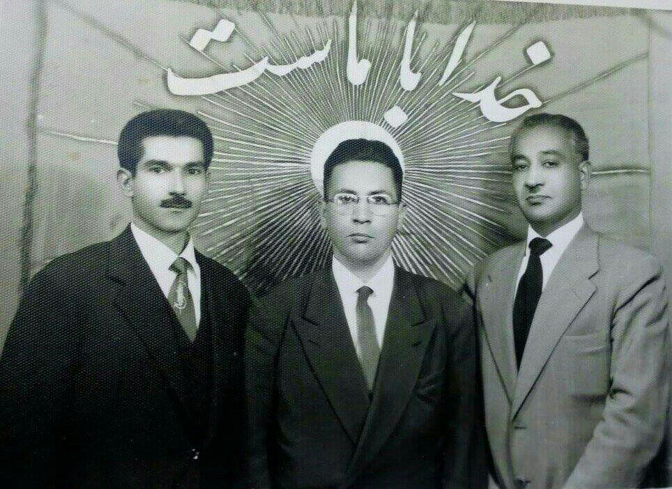 اندامان کوشاد باهماد آزادگان آبادان.، پیکره احتمالا بین سال های 1330-1334